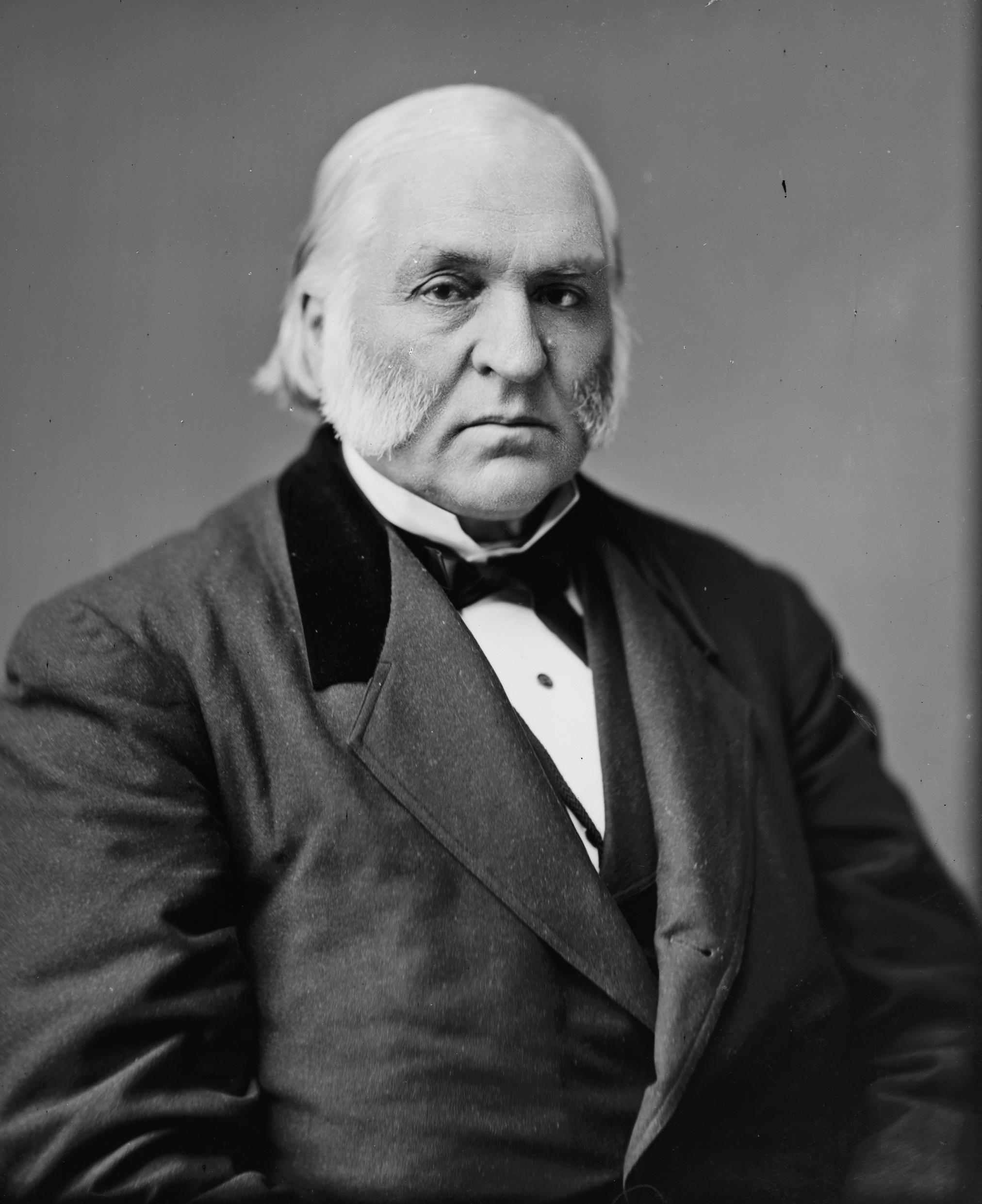 Elbridge G. Lapham. Library of Congress description: "Lapham, Hon. Rep. Elbridge Gerry of N.Y.".